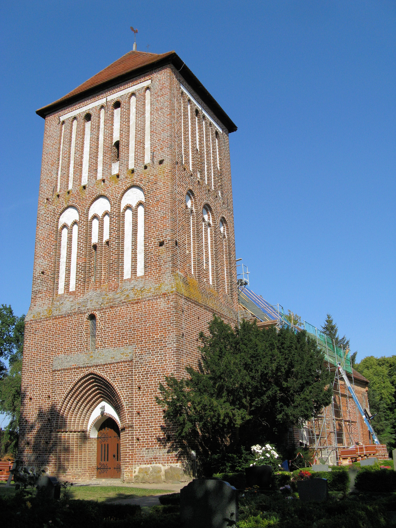 Church in Warnkenhagen, disctrict Güstrow, Mecklenburg-Vorpommern, Germany